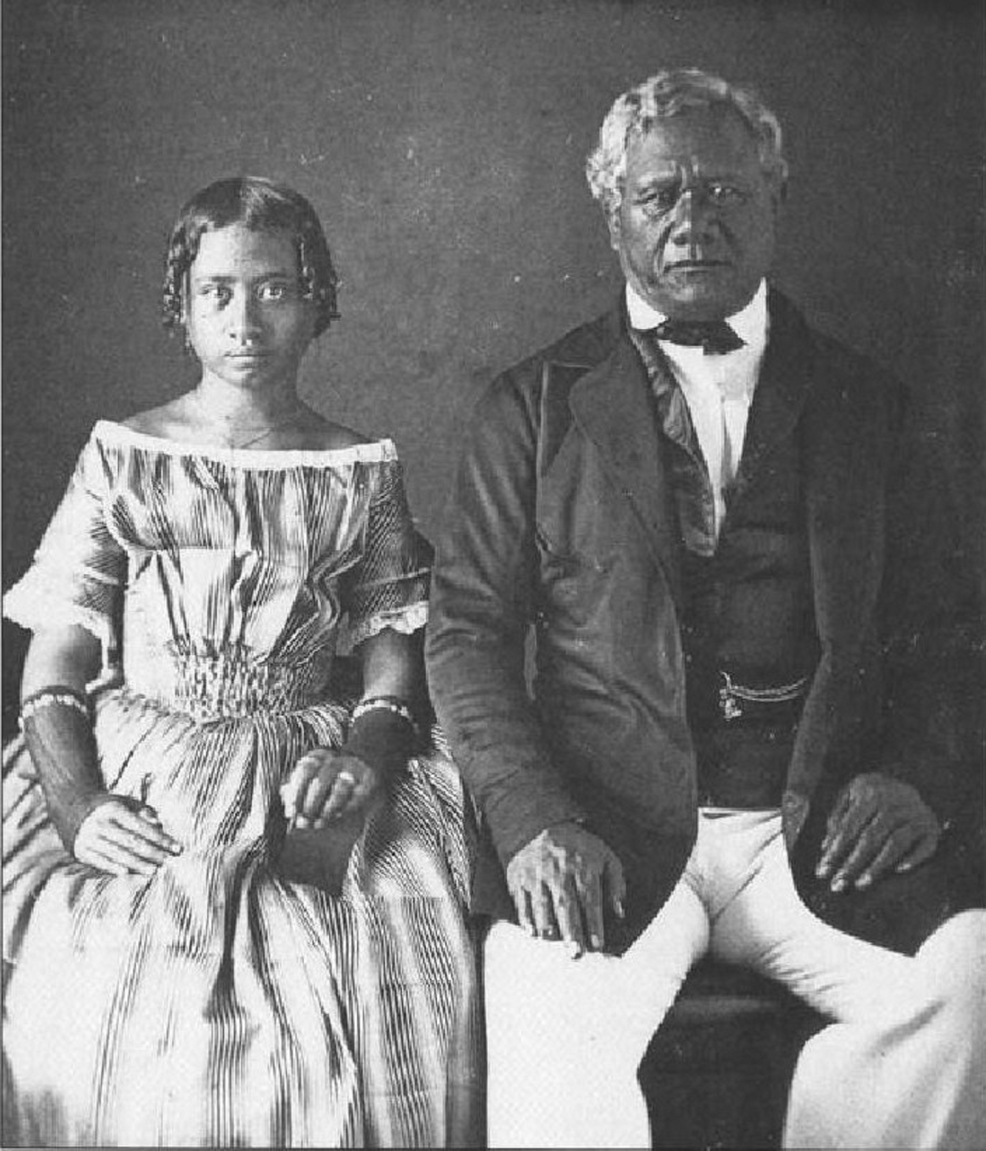 Mataio Kekuanao‘a with his daughter, Victoria Kamamalu.